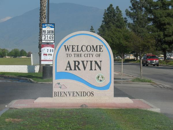 "Welcome to the city of Arvin." Sign in a convenience store parking lot at the entrance to Arvin, California.